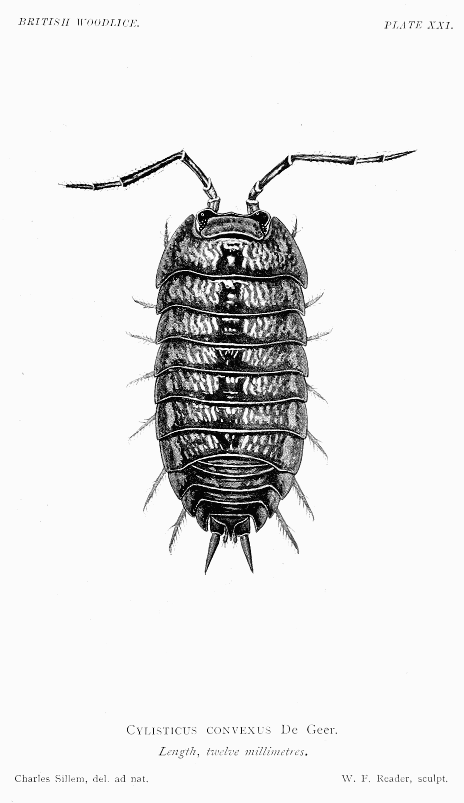 Illustration from the book given under "Source"